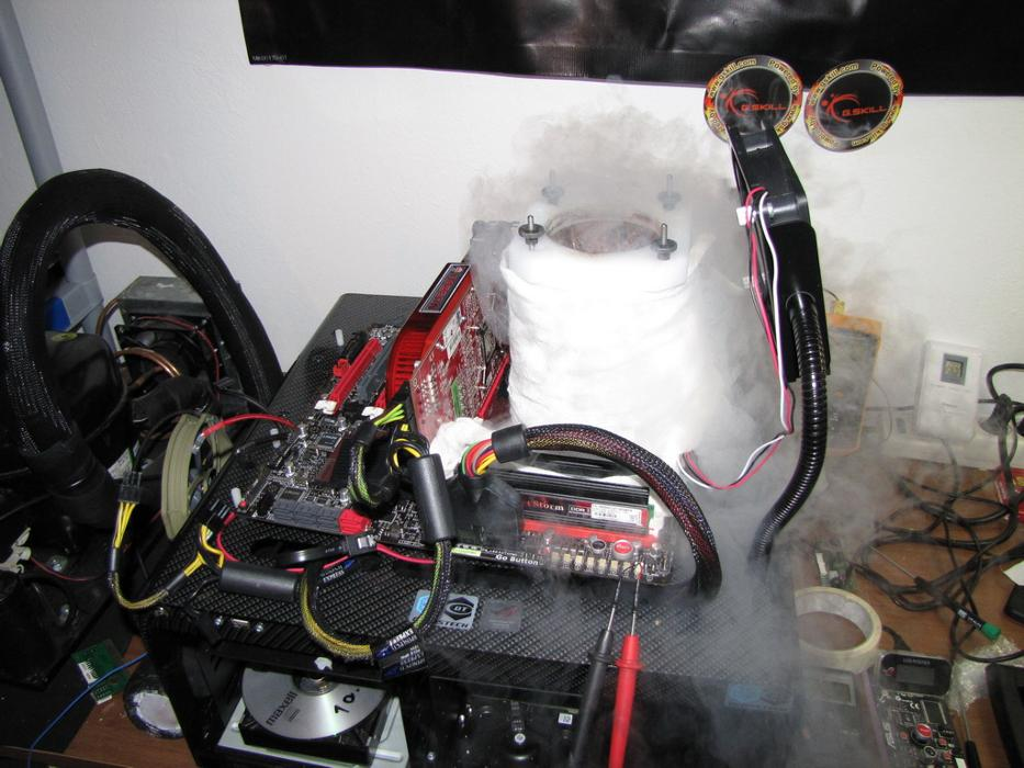 Gulftown on liquid nitrogen